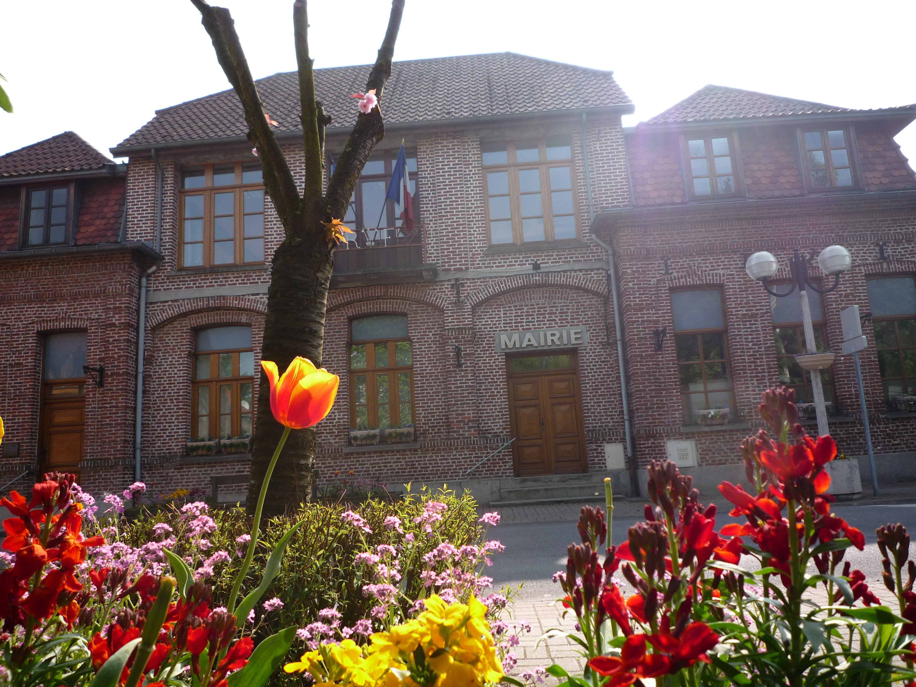 Rieulay town hall, France.